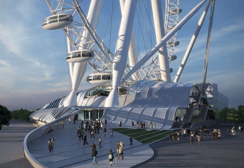 Great Berlin Wheel Animation